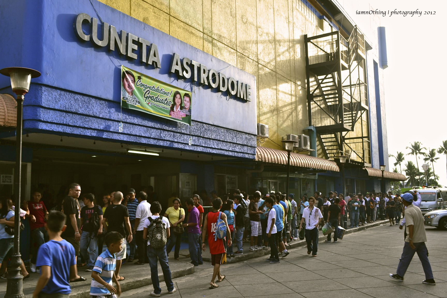 It's the last double header game for PBA 37th conference as Ginebra and Bmeg push themselves for the 2nd position Semi-final set. If you want to watch live basketball game for cheap ticket price.. go and ask those parking boy! ^^